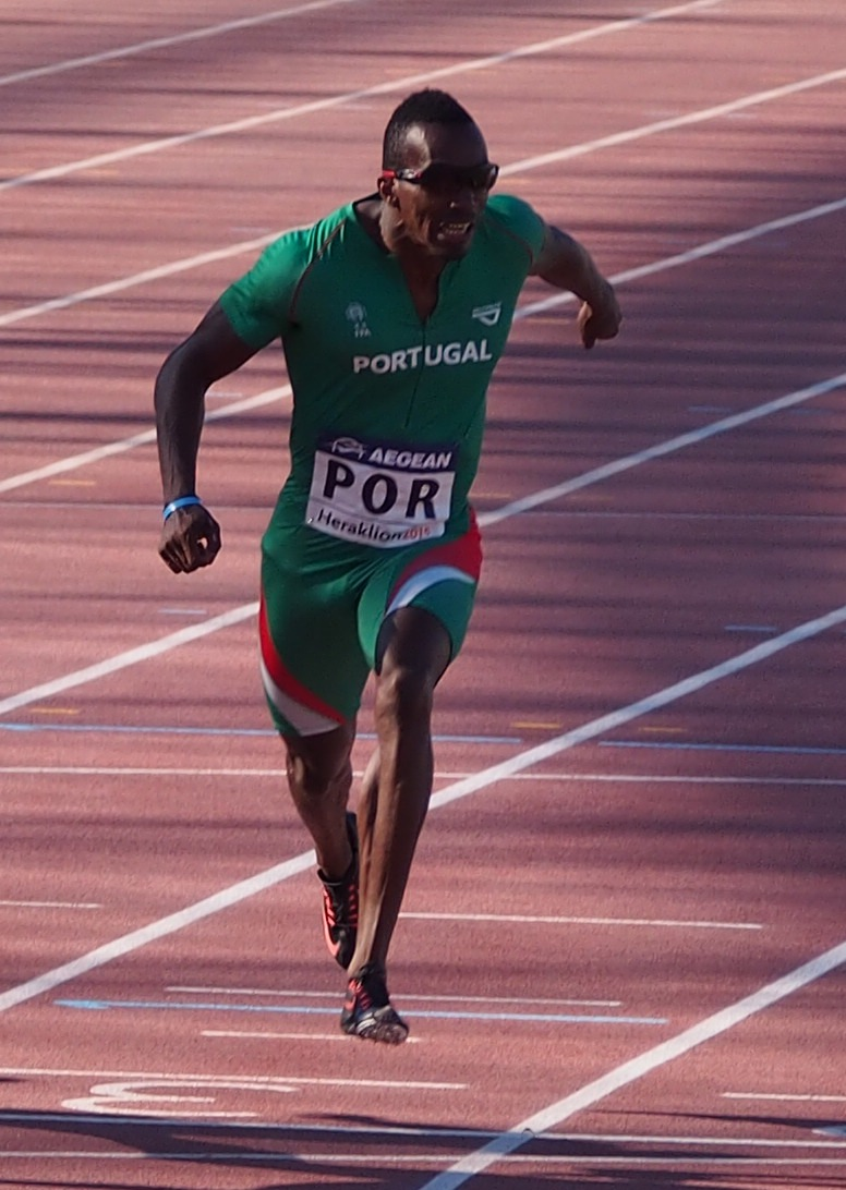 Yazaldes Nascimento during 2015 European Team Championship First League 100 m event.